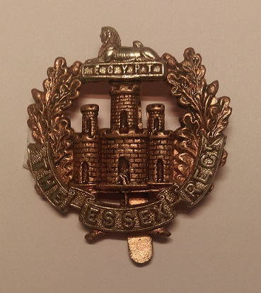 Photo of Essex Regiment Cap Badge from personal collection